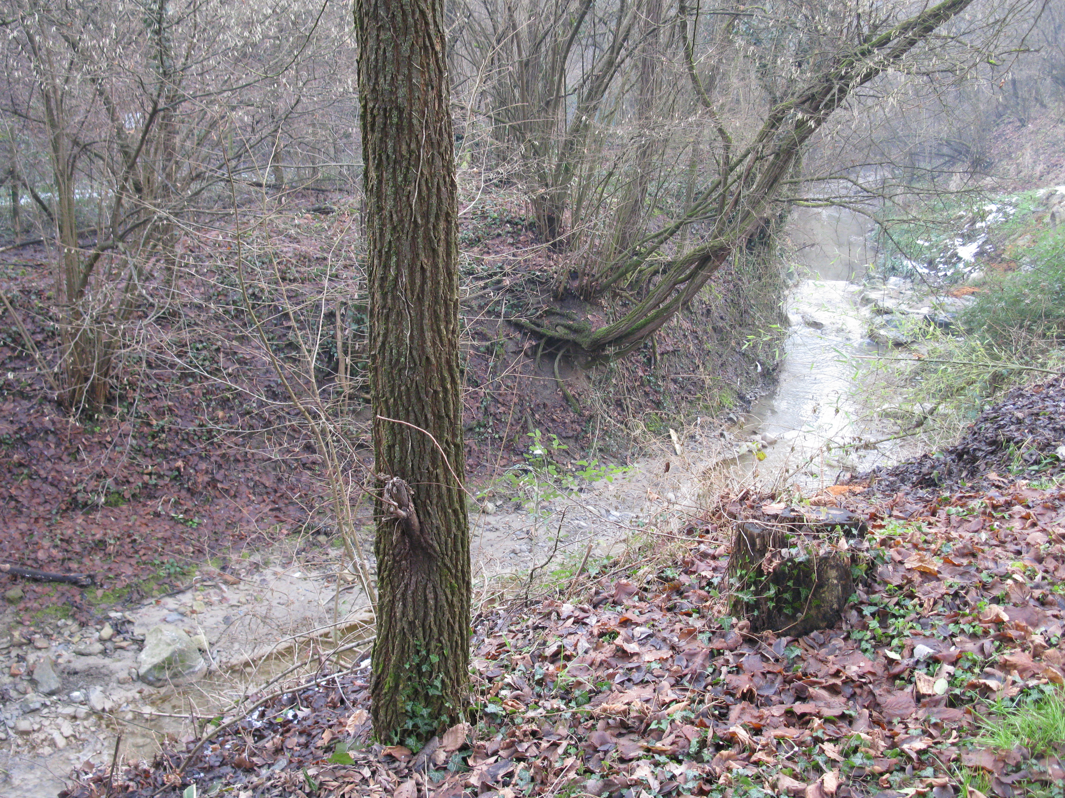 Rovacchia River